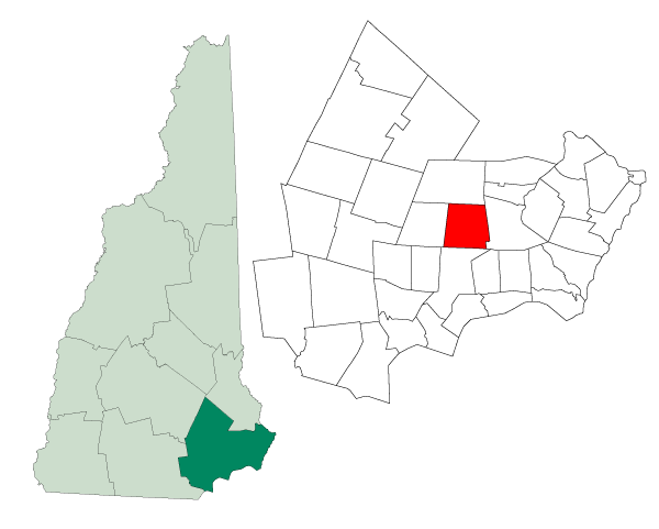 Map of a municipality in Rockingham County, New Hampshire